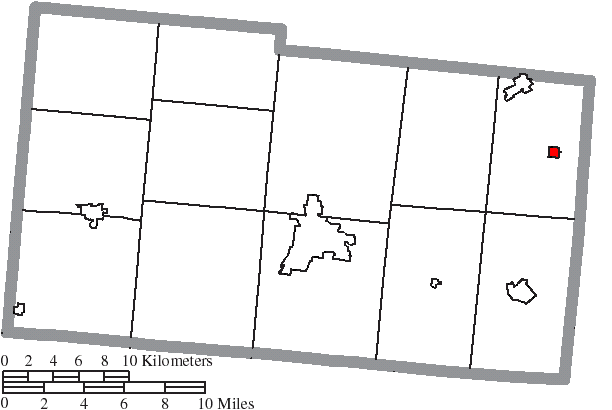 Map of the municipal and township boundaries of Champaign County, Ohio, United States, as of the 2000 census, with the location of the village of Woodstock highlighted. Township borders are shown only in unincorporated areas in order to differentiate incorporated and unincorporated areas more clearly.